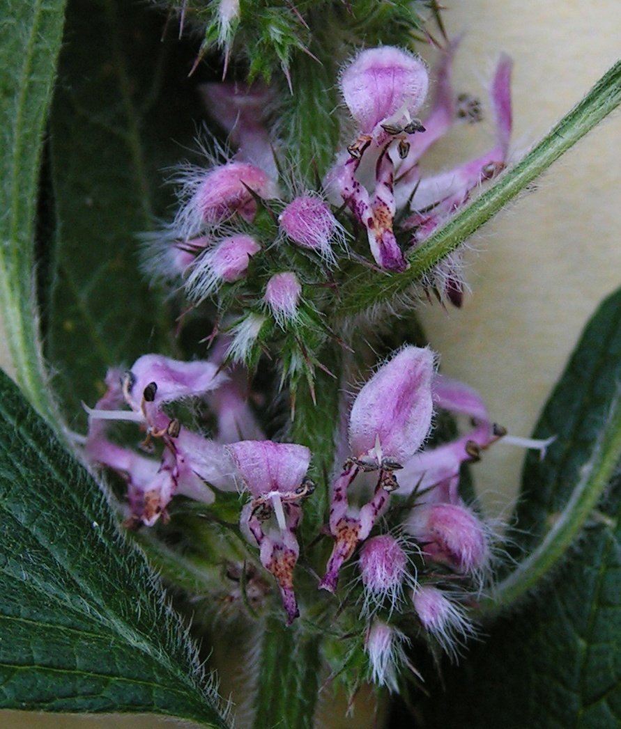 The fragment of the inflorescence of Leonurus quinquelobatus [syn. Leonurus cardiaca subsp. villosus , syn. Leonurus villosus]. Moscow region, Russia.